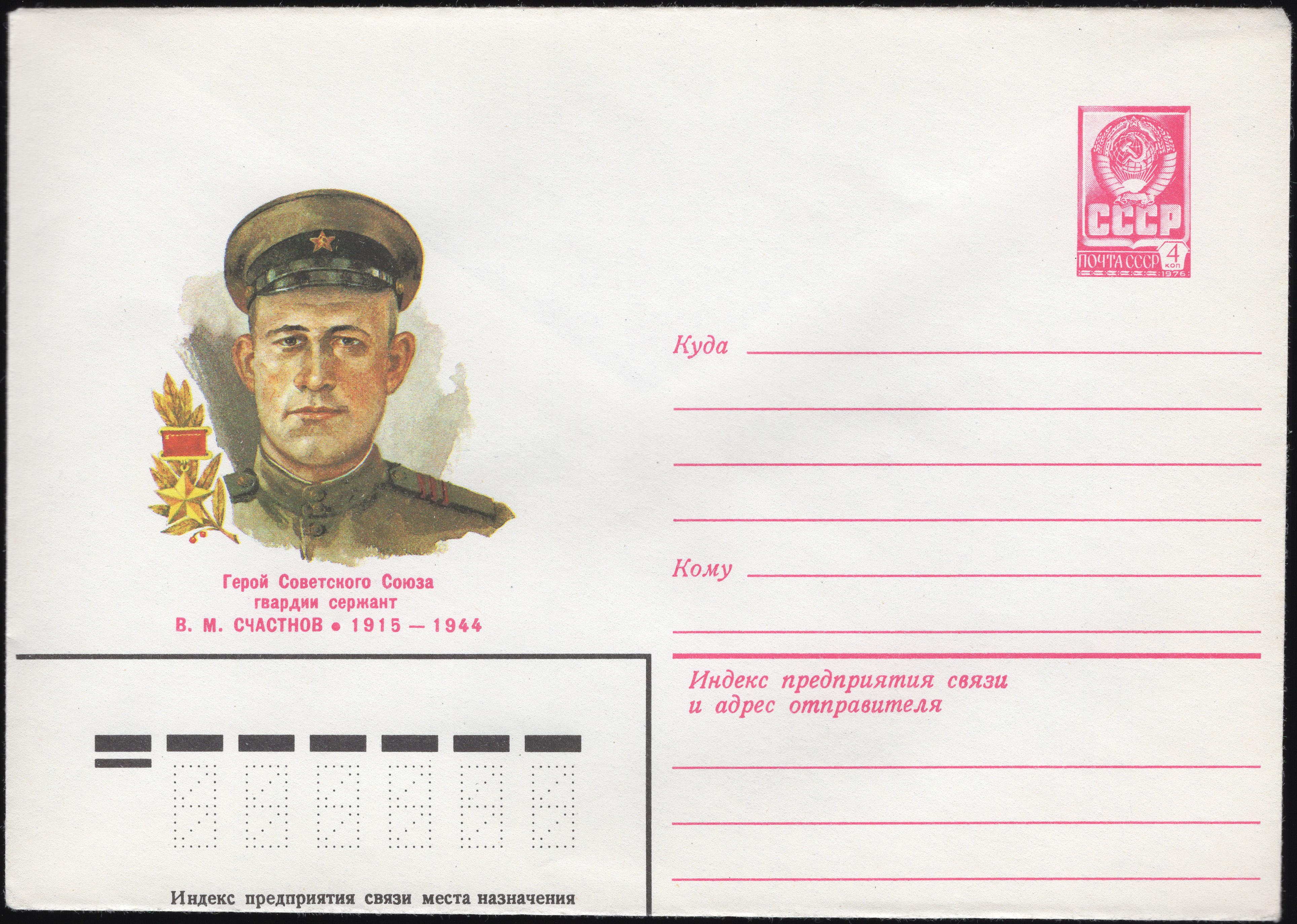 Hero of the Soviet Union Guards Sergeant Vladimir Schastnov. 1915-1944. Series: Heroes of the Soviet Union. Artist Peter Bendel.